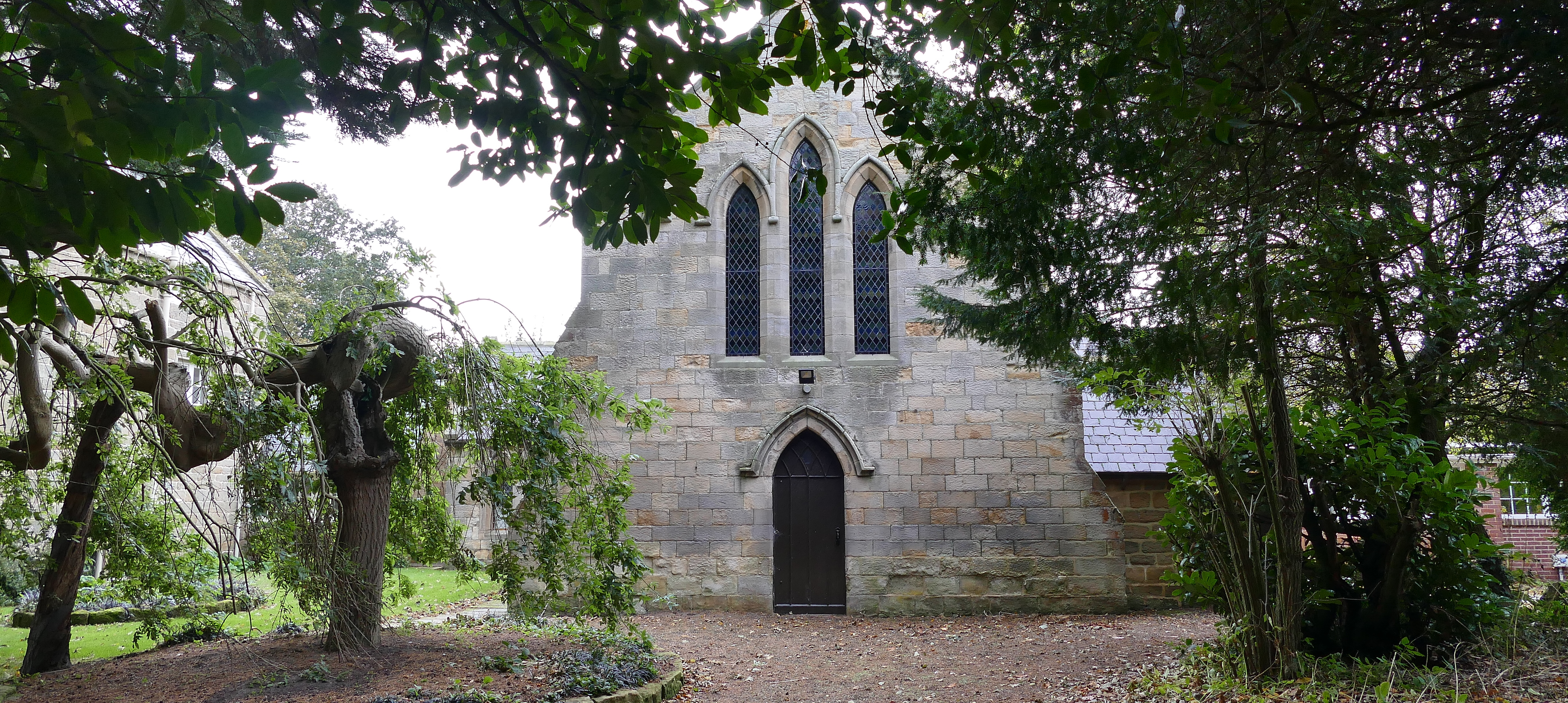 St Thomas of Canterbury - exterior from the driveway